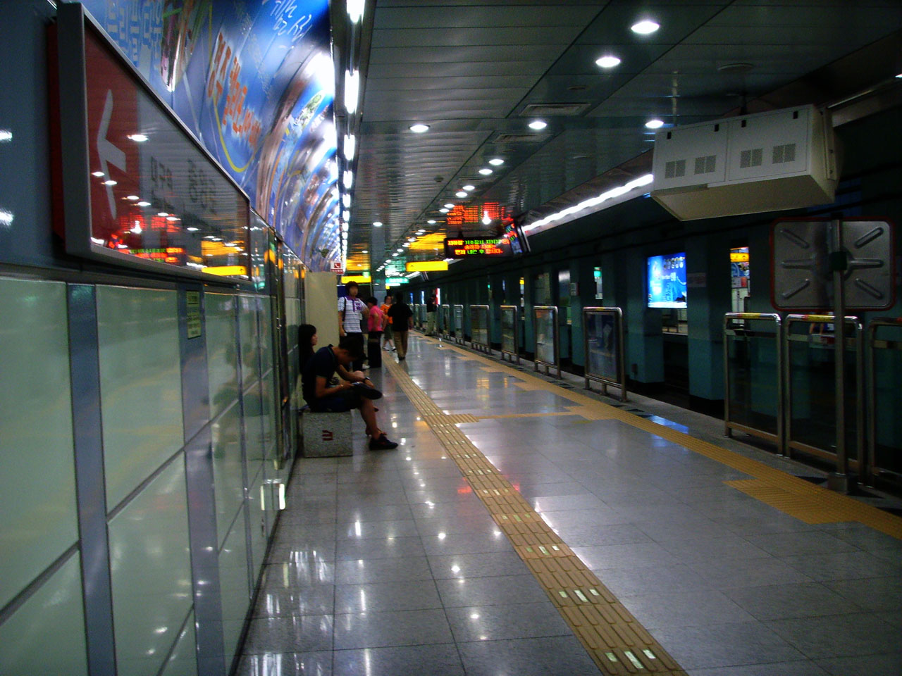 Daegu Subway Line 1 Jungangno Station